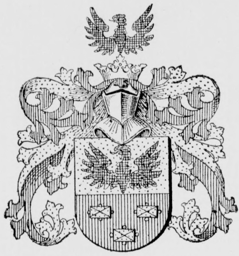 Sulima coat of arms by Juliusz count Ostrowski